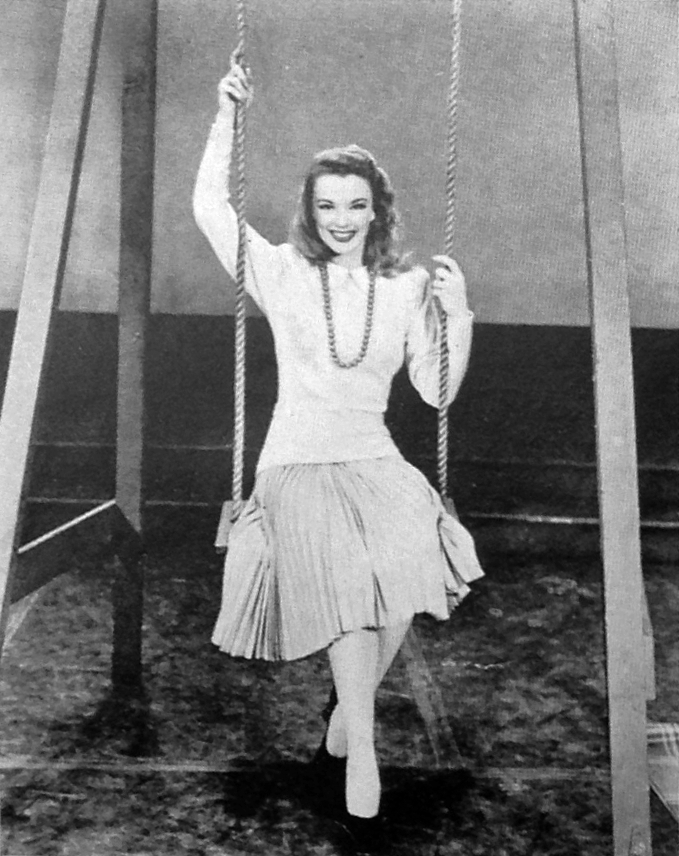 Roberta Jonay as Jennie in Rodgers & Hammerstein's Allegro